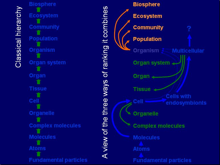 In the classical hierarchical ordering (left half of the figure), system types are ranked according to ‘complexity’ in a one-dimensional way (green upward arrows). The right half of the figure illustrates the different types of ranking the classical hierarchy combines. Green=from the individual to its internal complexity. Orange=from the individual to various subsets that, based on specific interactions, can be recognized in the ecosystem. Blue=from lower level operator (abiotic particles and organisms) to higher level operator. Thin blue lines indicate that the concept of ‘organism’ relates to various complexity levels of operators (Gerard Jagers op Akkerhuis).